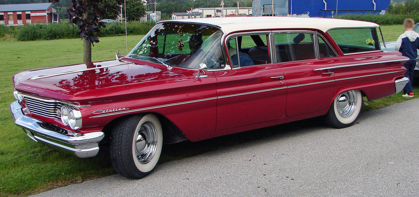 1960 Pontiac Catalina Wagon seen near Lödöse museum, Sweden